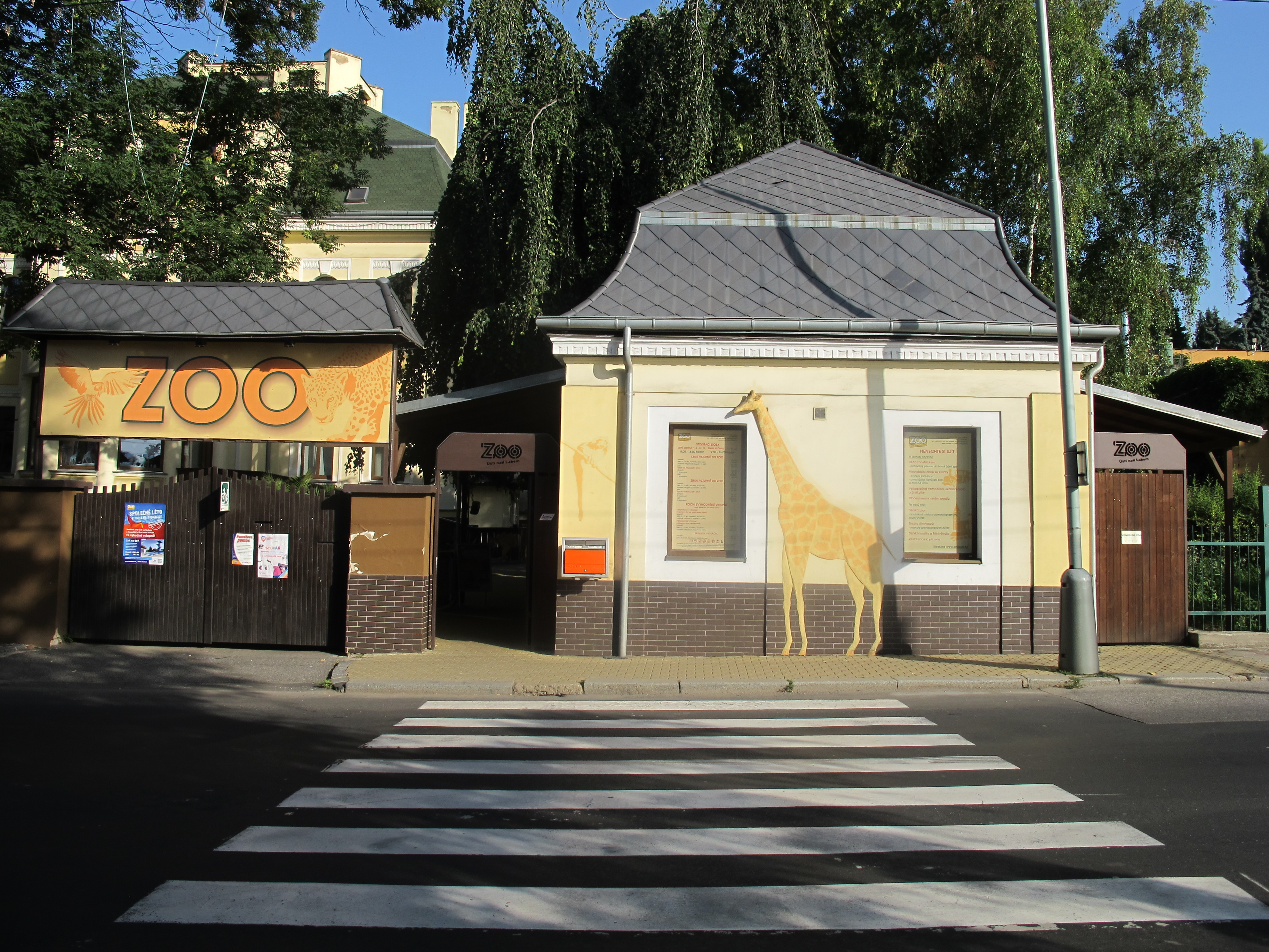 Lower reception of Ústí nad Labem Zoo on Drážďanská street.